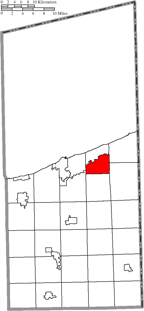 Map of the municipal and township boundaries of Ashtabula County, Ohio, United States, as of the 2000 census, with the location of Kingsville Township highlighted. Township borders are shown only in unincorporated areas in order to differentiate incorporated and unincorporated areas more clearly.